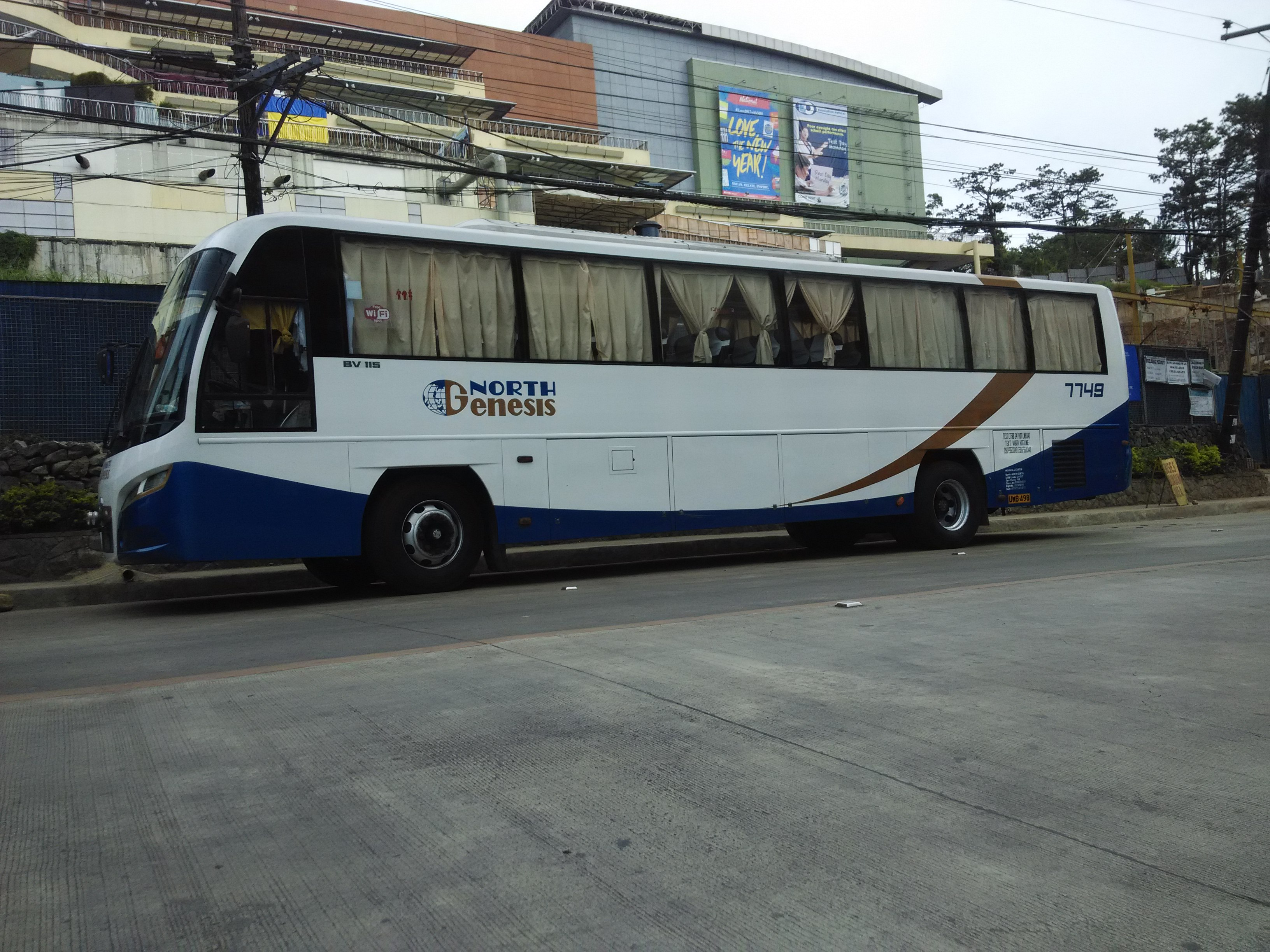 North Genesis 7740 at SM City Baguio